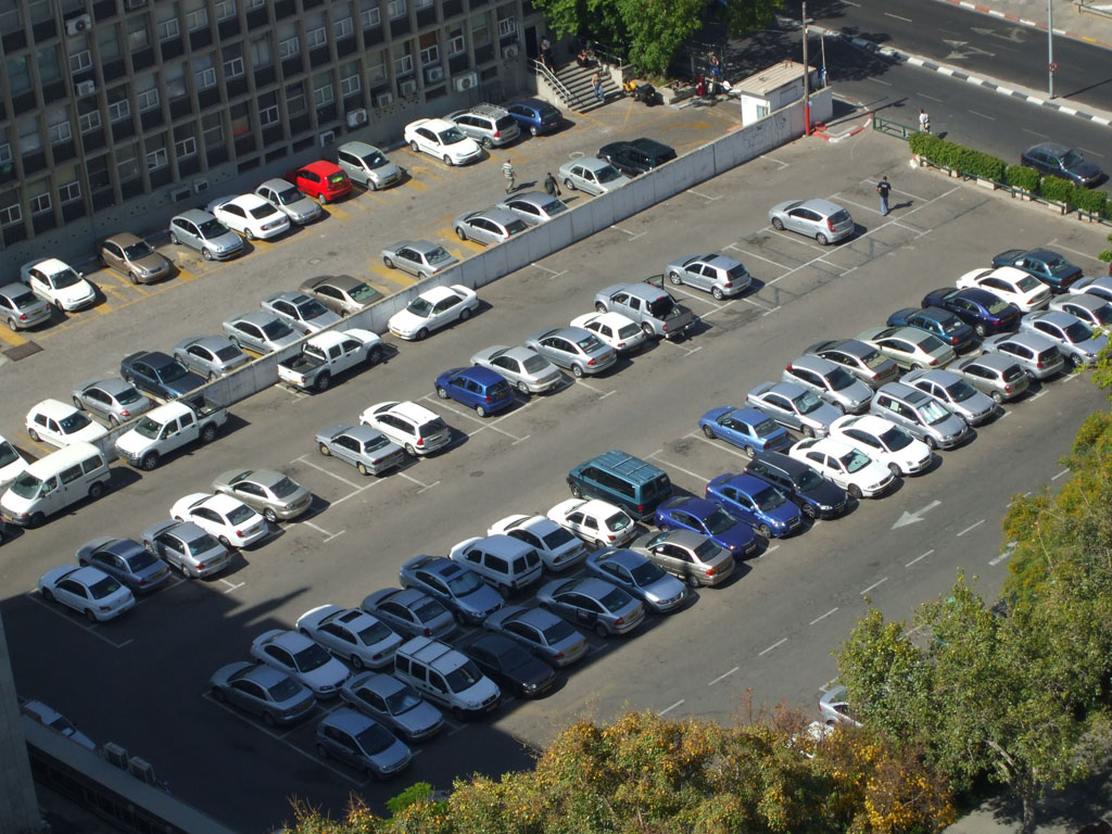 A parking lot in Tel Aviv.